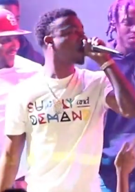 American rapper Roddy Ricch performing at an event in 2019.